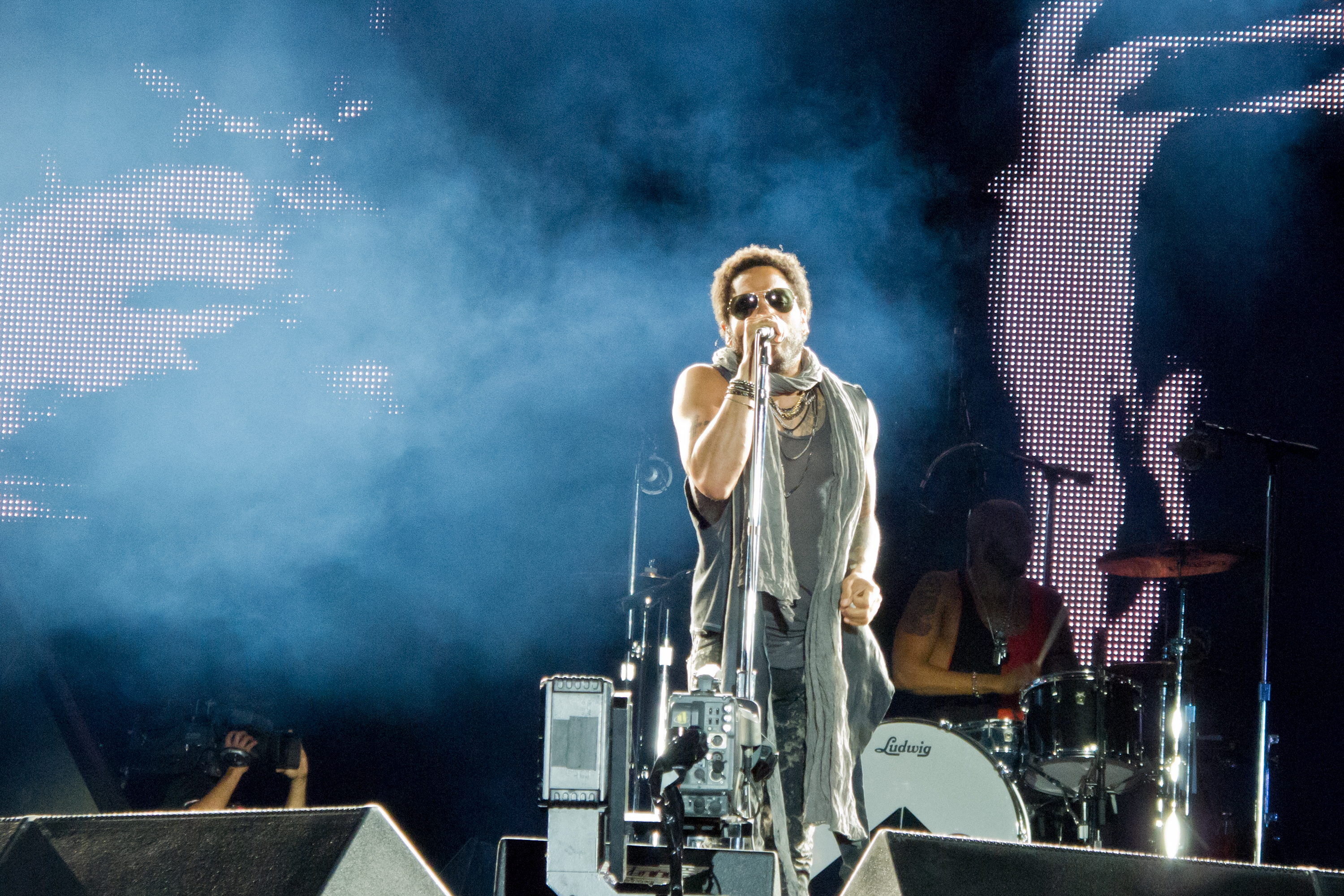 Lenny Kravitz live in Rock in Rio Madrid 2012.